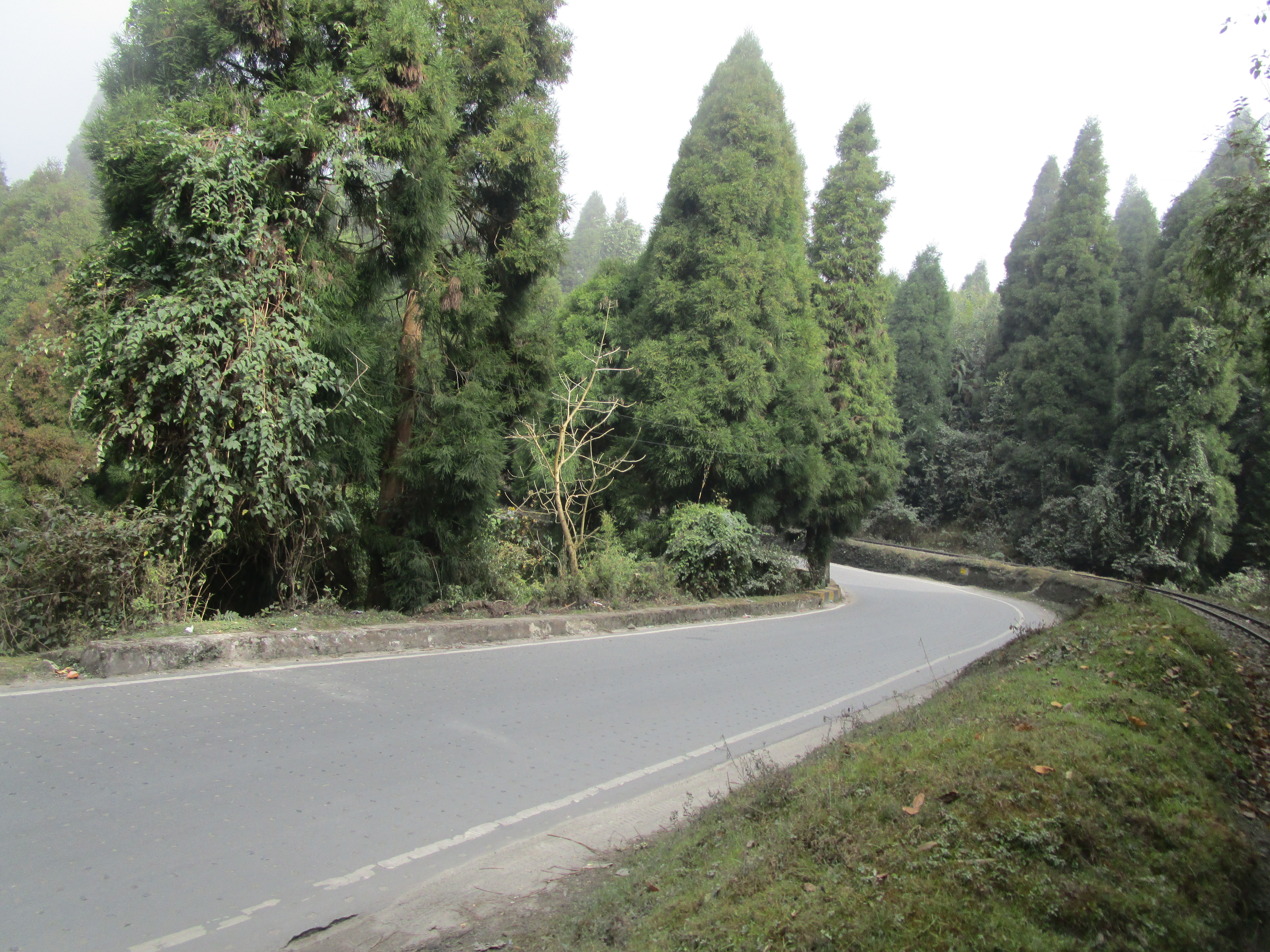 National Highway 55 (India) near Ghum.